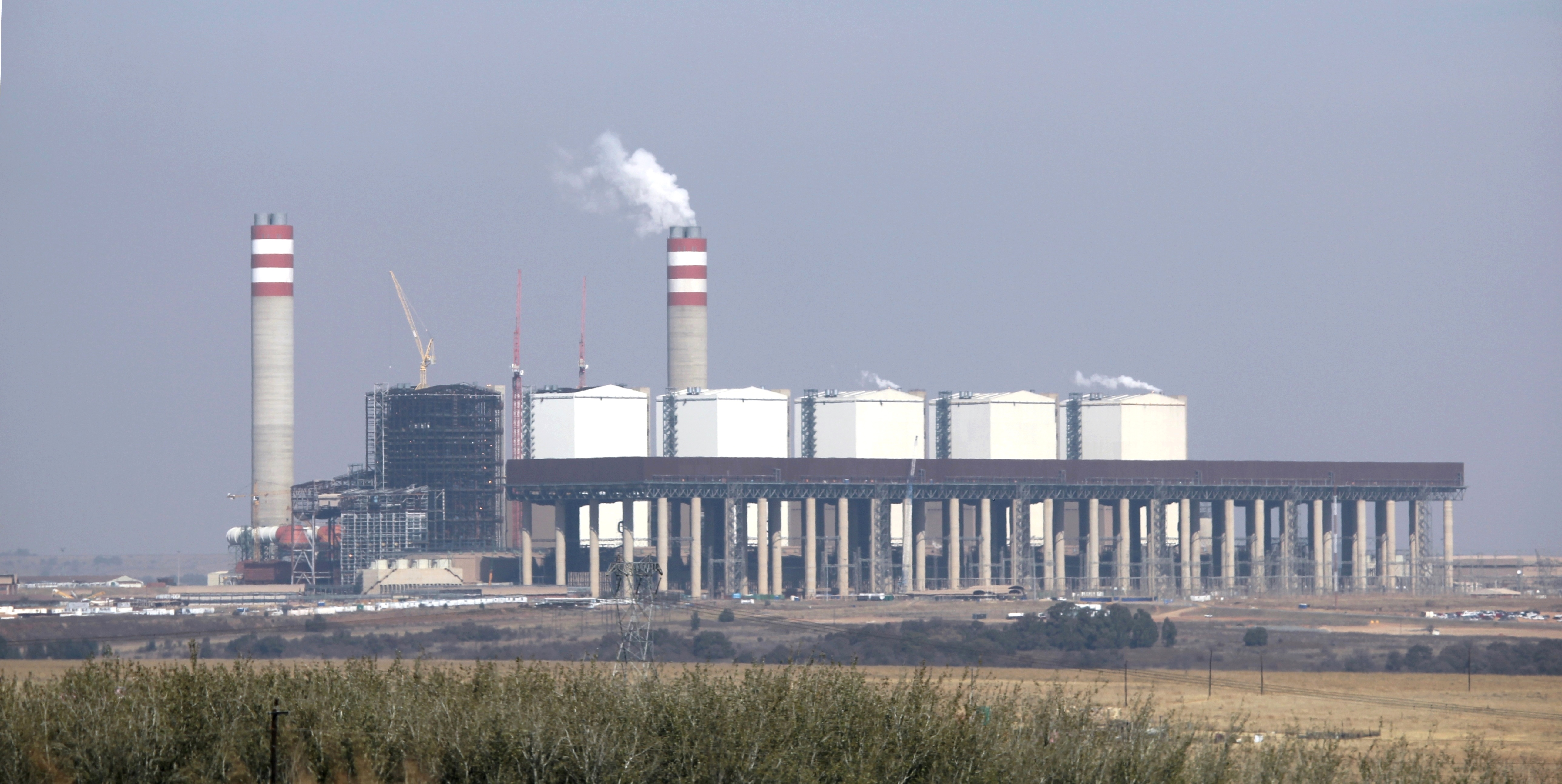 Kusile Power Station in western Mpumalanga, seen from the N4 freeway